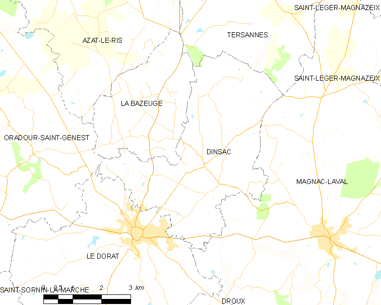 Map of French municipality Dinsac